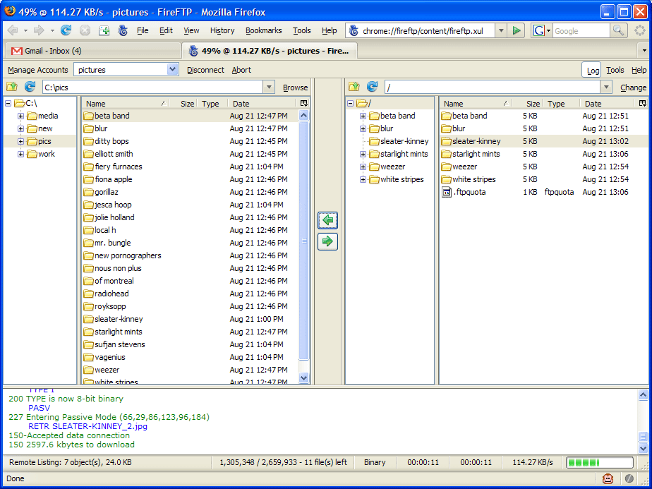 Screenshot of FireFTP 0.95.1 beta running on Windows XP (modified visual style).